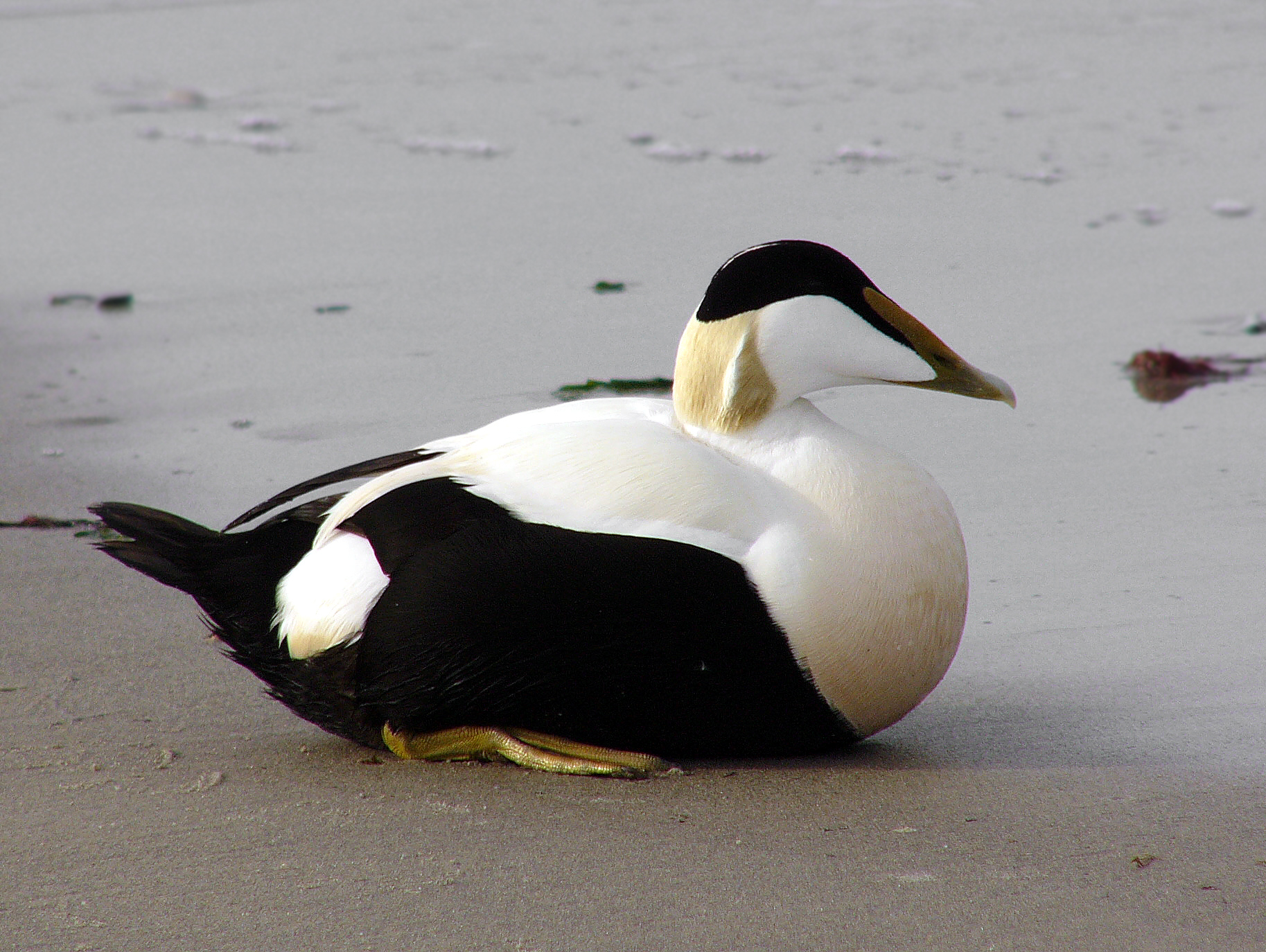 Common Eider (Helgoland/Düne)